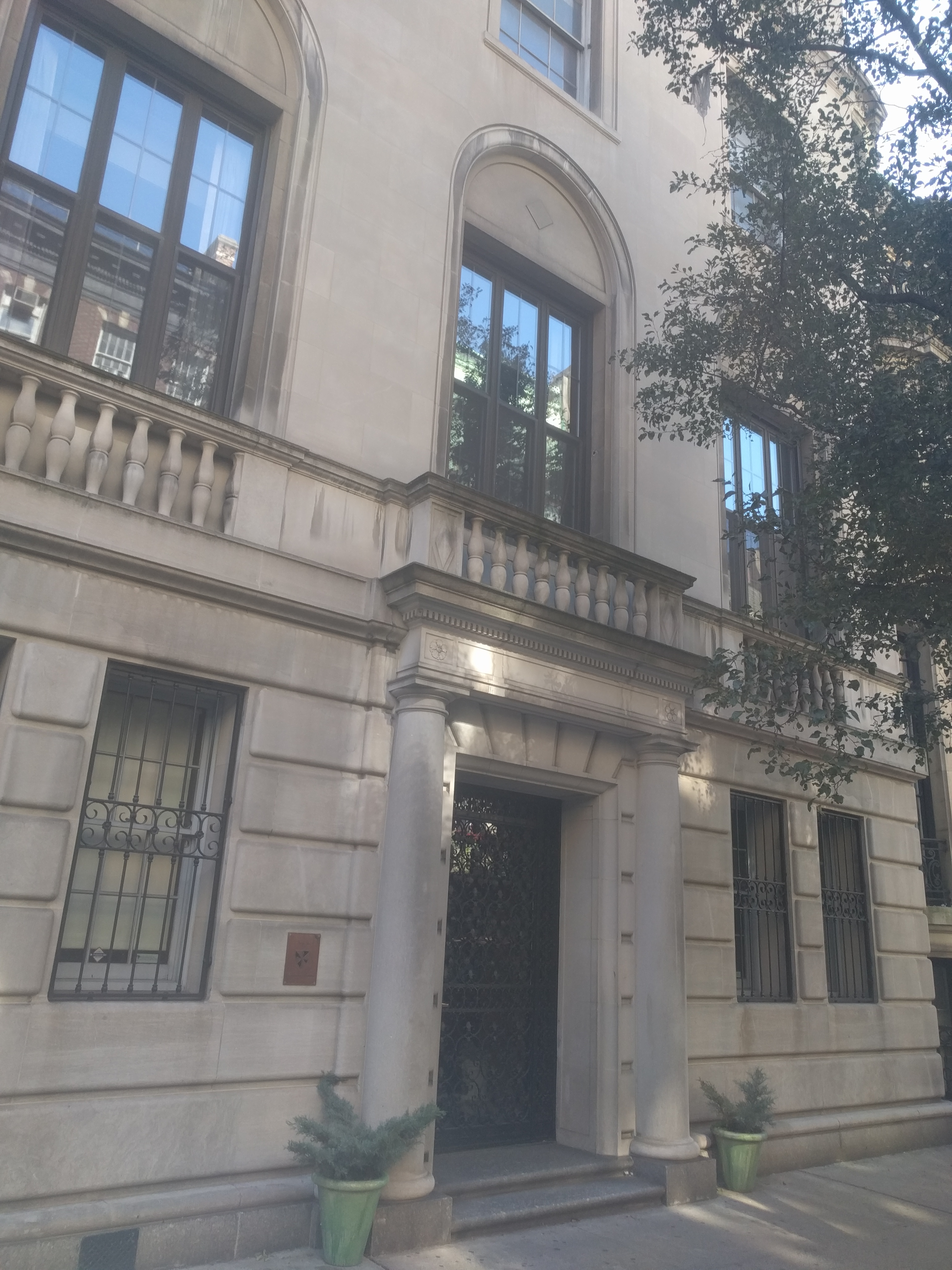 university-preparatory school